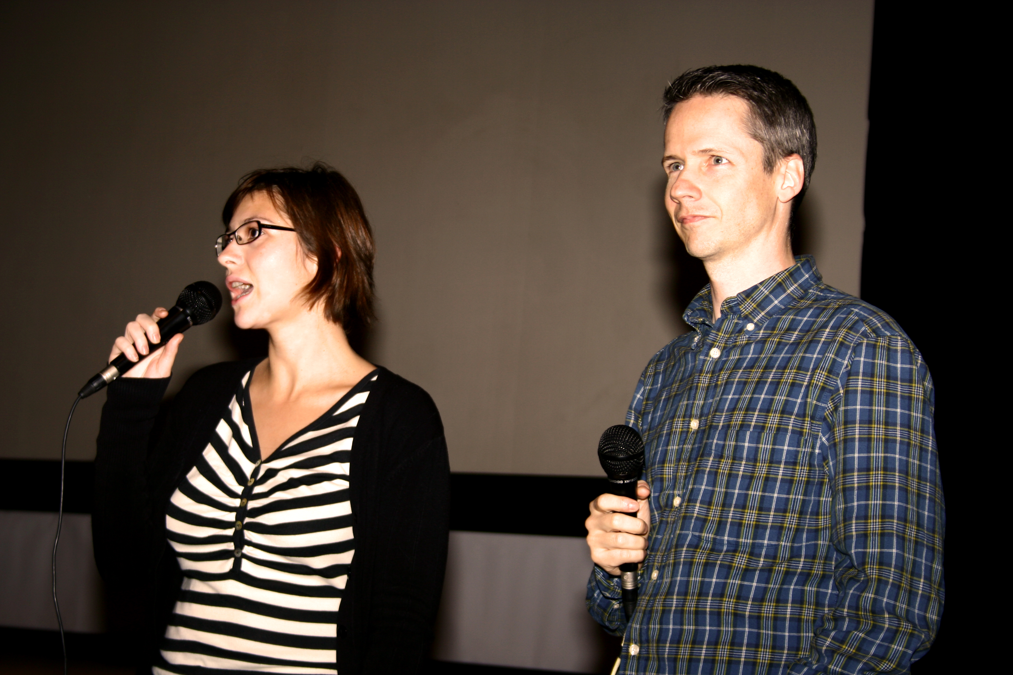 John Cameron Mitchell & Michaela Pňačeková (left) during Q&A at Mezipatra gay & lesbian film festival 2006 at Kino Světozor, Prague, Czech Republic.